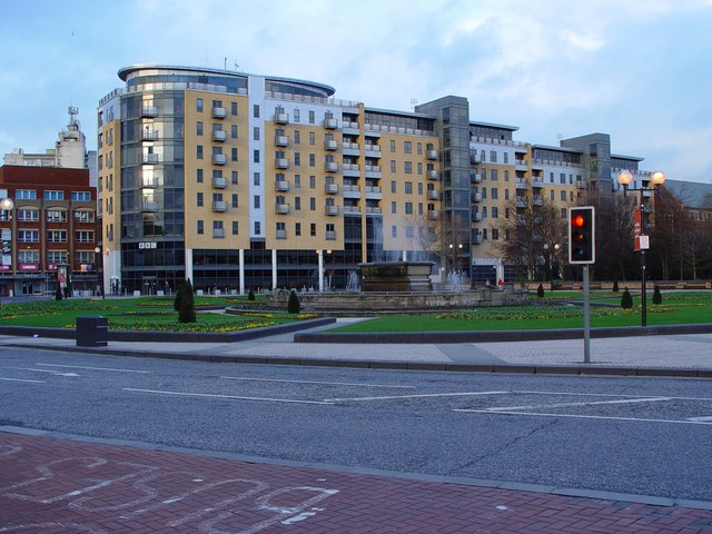 BBC Studios, Hull This smart building overlooks Queens Gardens, and is the home of BBC Radio Humberside, as well as hosting a number of other activities.